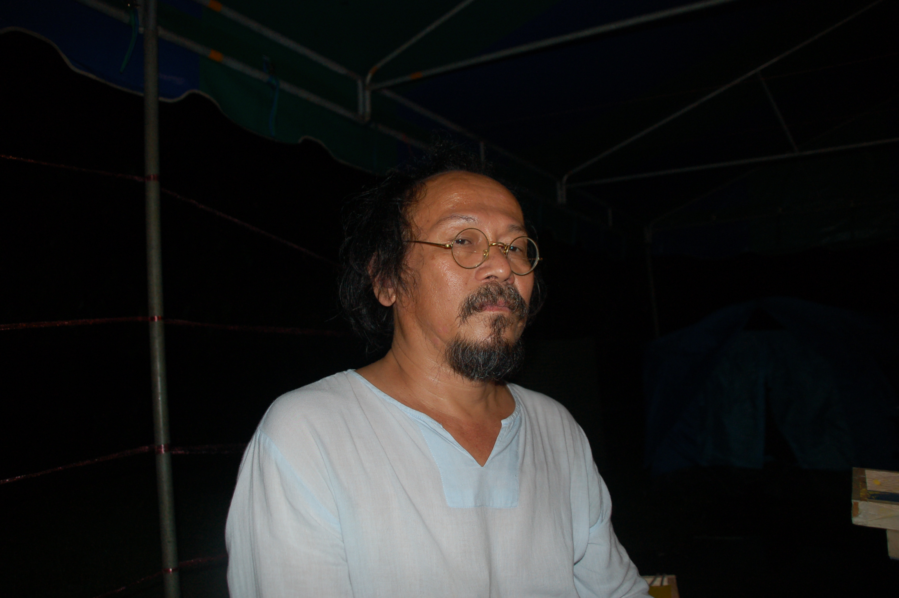 Vasan Sitthiket (Thai: วสันต์ สิทธิเขตต์), Thai painter and performance artist, before a stage performance in Trang province, Thailand. Taken on July 19, 2008.